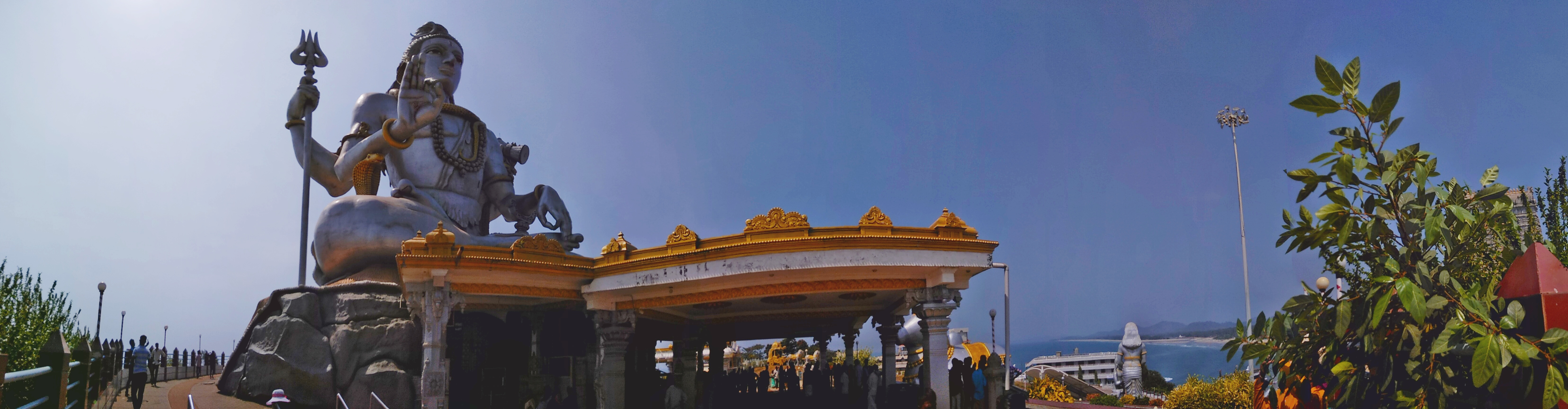 Murudeswar Shiva Panoramic view